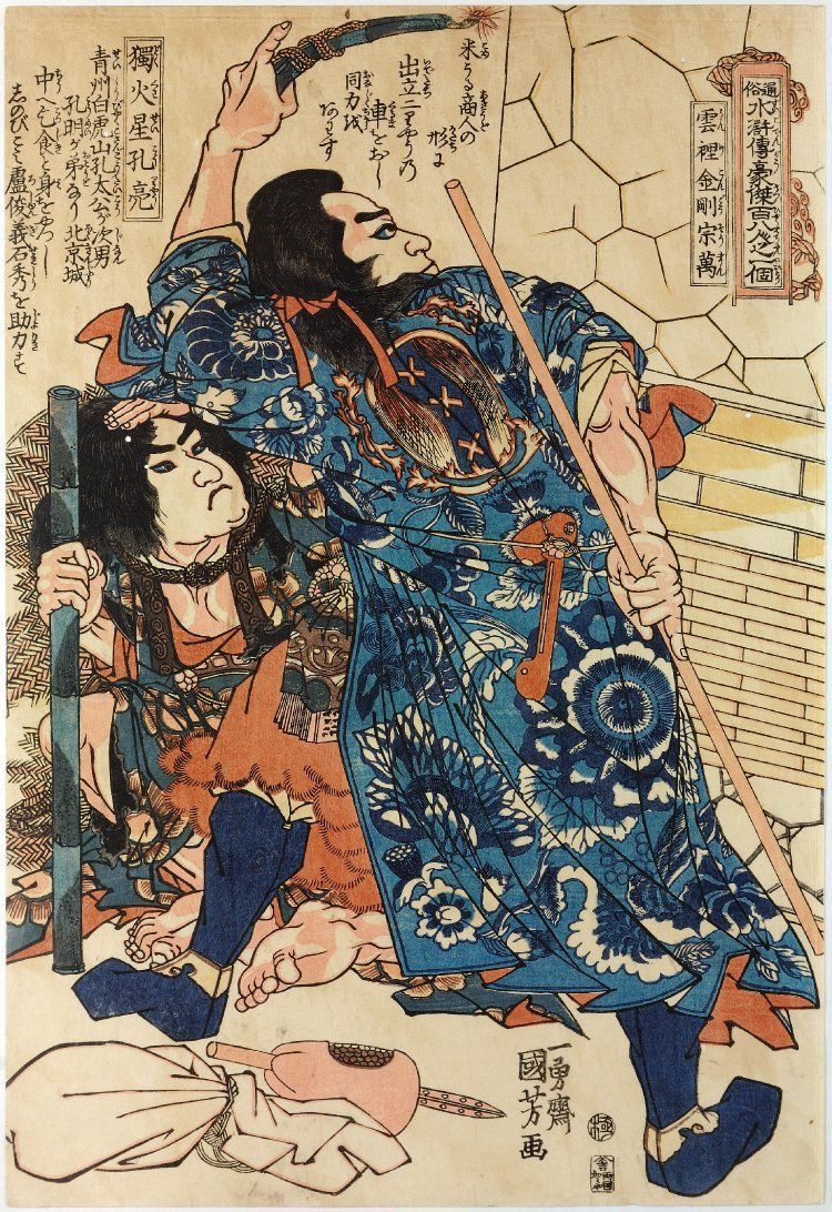 Song Wan 宋萬 (standing) disguised as a rice merchant, with Kong Liang 孔亮 (crouching), disguised as a beggar, outside the walls of Peking.